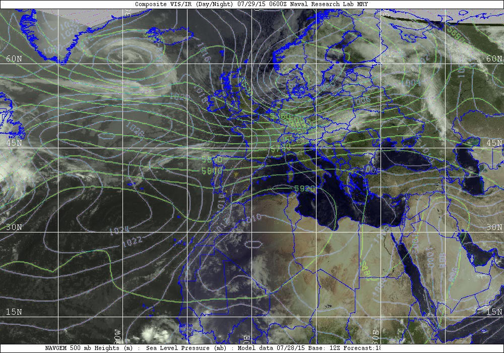 NAVGEM 500 mb (hPa) Heigths and Sea Pressure Level (mb) on Composite Vis/IR (Day/Night) for Wen 29 JUL 2015 00 UTC. Image illustrates Azores high shifted north and a Denmark low. Cold stiff westerly winds north of the Alps (Paris 20°C, Moscow 23°C), warm westerly wind belt south, with extreme high temperatures extending to near east during 2015 European & Central Asia heat wave (Madrid 38°C, Algier 40°C, Athens 39°C, Cairo 38°C, Baghdad 49°C)